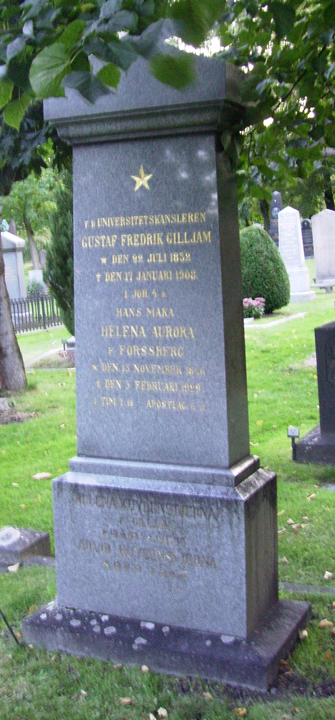 Picture of Gustaf Gilljam's grave at Norra begravningsplatsen in Stockholm